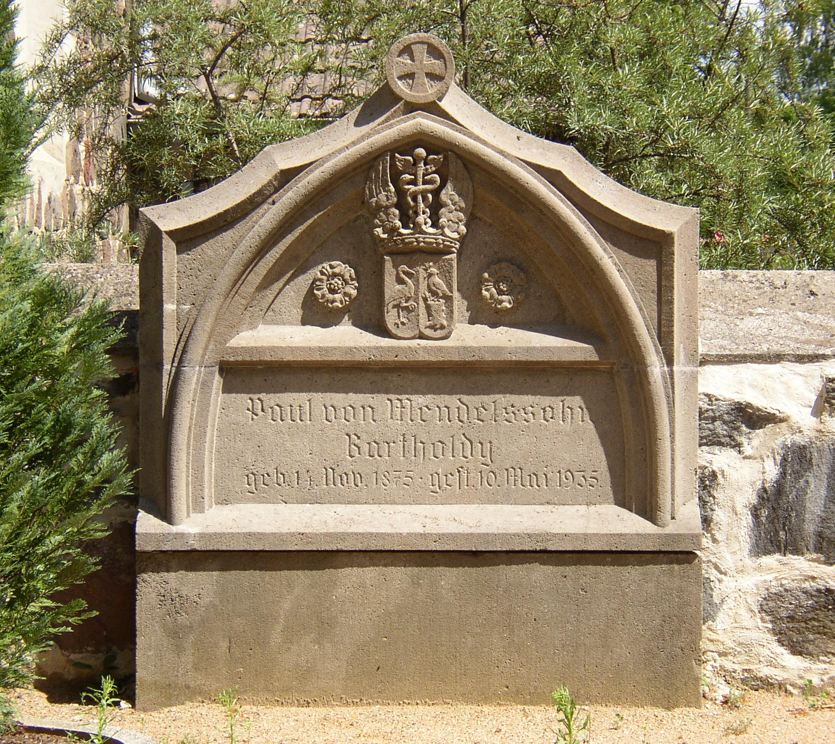 Grave of Paul von Mendelssohn-Bartholdy (1875–1935) in Bernau-Börnicke in Brandenburg, Germany